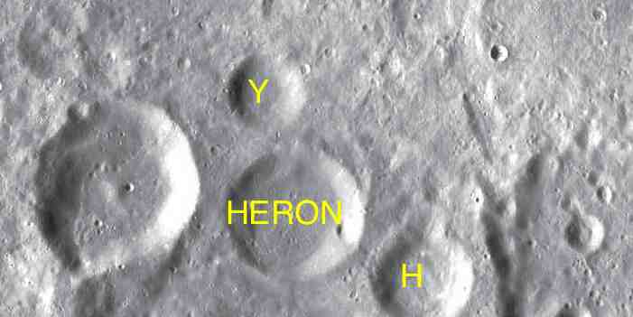 Part of the chart LAC-65 used for the presentation